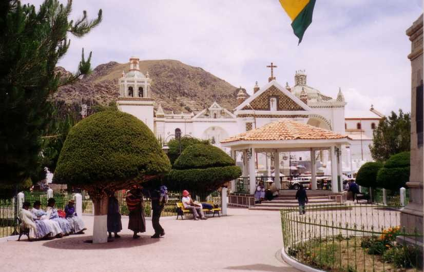 Plaza at Basilica of Copacabana